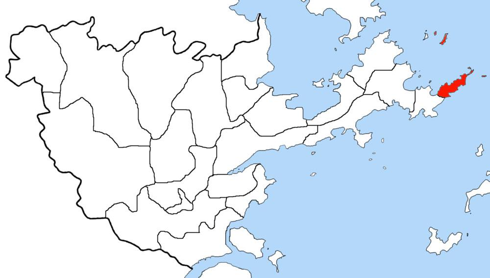 Map of Tailu Town in Lianjiang County, Fuzhou, Fujian, China (PRC) Source: Lianjiang Xian Zhengqu Tu (连江县政区图) in Part 1 (上册) of Lianjiang Xian Zhi (连江县志) August 2001. ISBN 7-80122-653-4